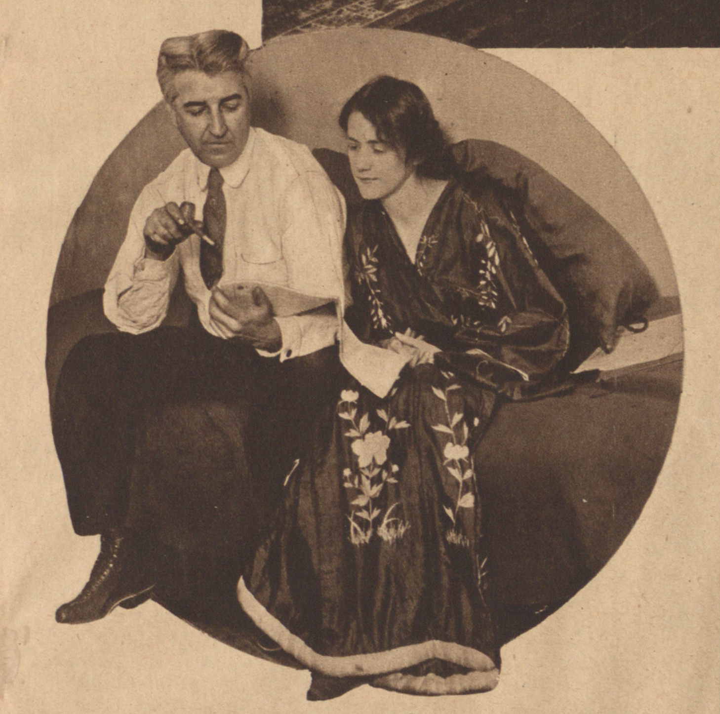 George Cram Cook and Susan Glaspell, married playwrights and novelists.